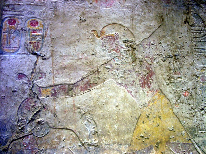 A relief from the temple of Beit el-Wali in Nubia depicting pharaoh Ramesses II smiting an enemy of Egypt. Ramesses II's policy of building temples in Nubia (including Abu Simbel and Beit el-Wali) were part of an effort to emphasize Egypt's might here and to consolidate his control over this rich gold producing region of Egypt's New Kingdom empire.